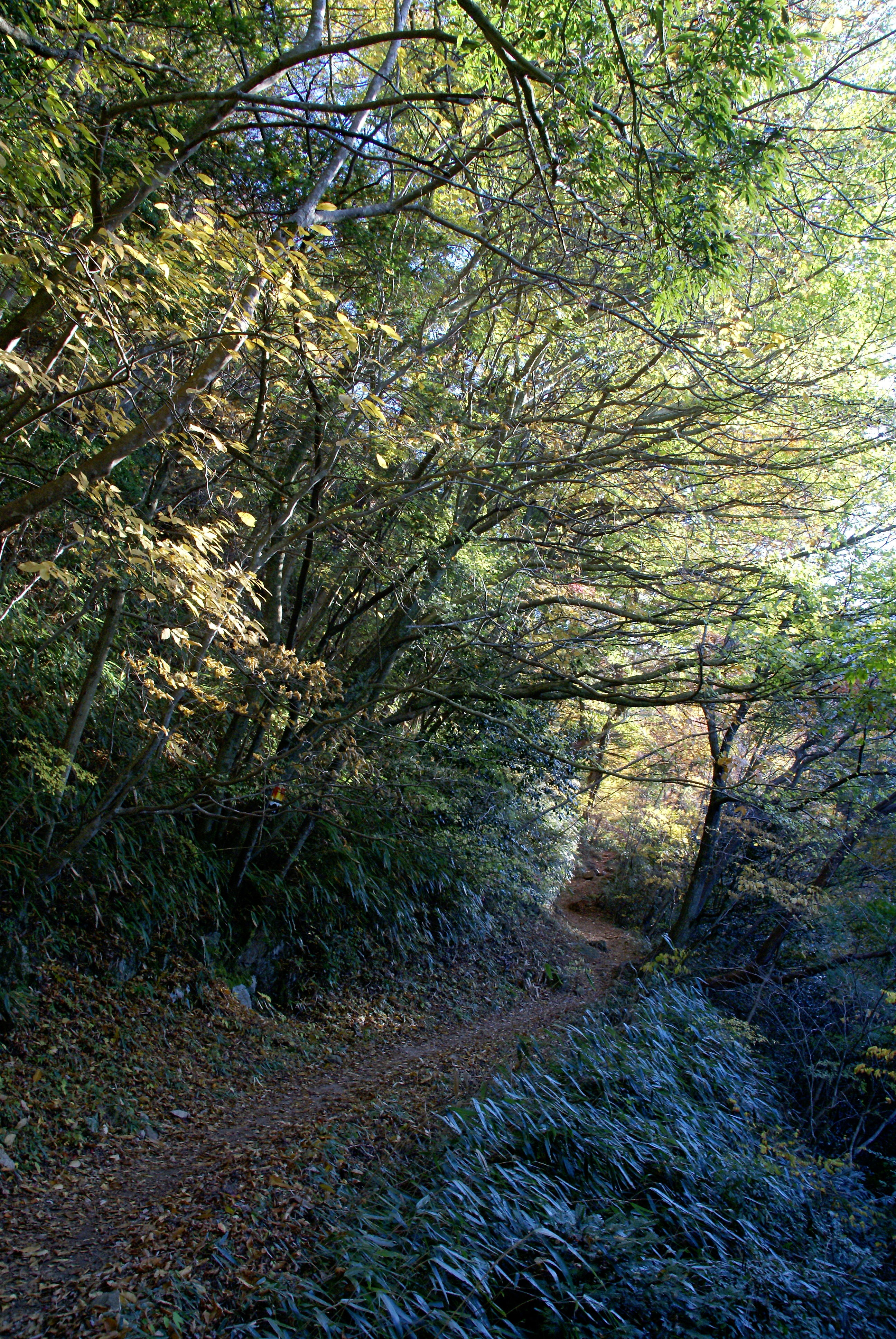 Momiji-dani valley in Mount Rokko, Kobe, Hyogo prefecture, Japan.